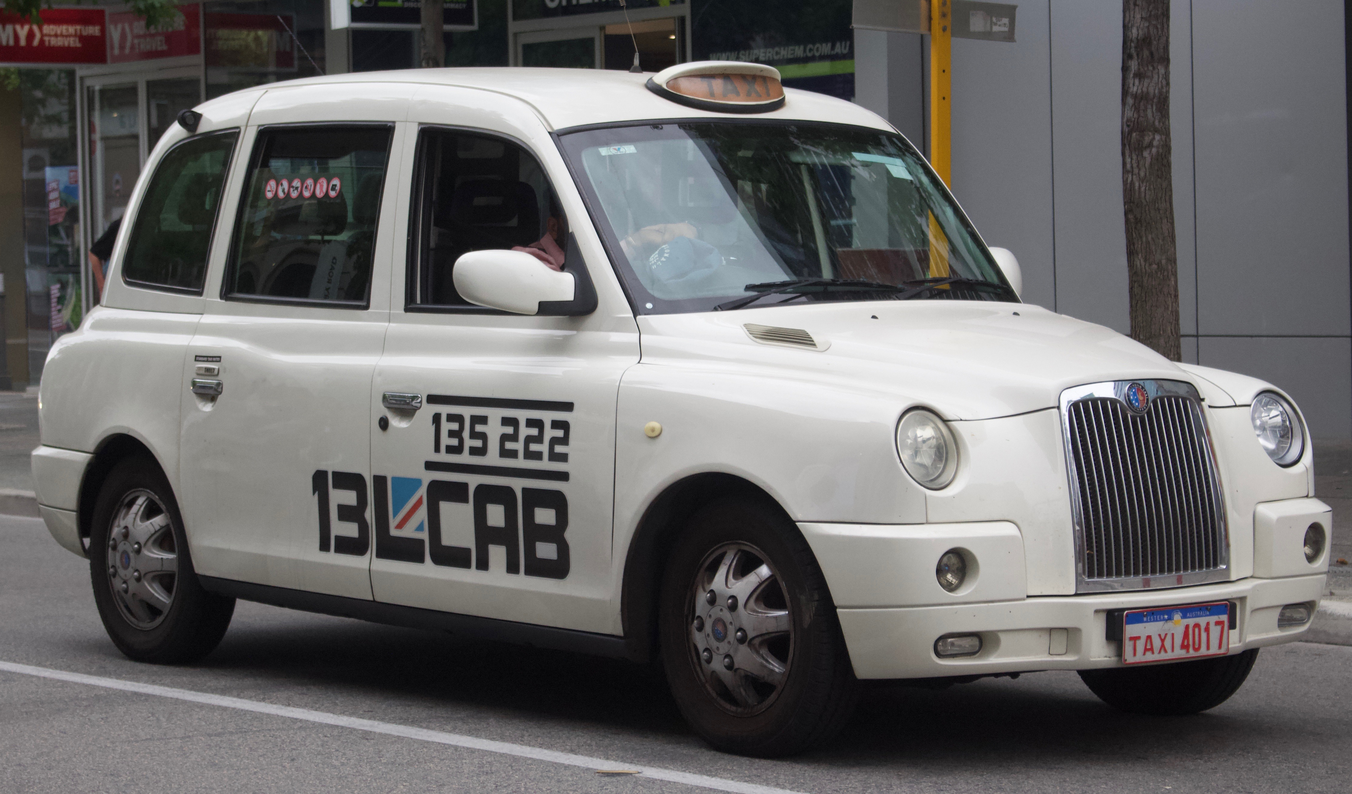 London Taxi TX4 operating as 13LCABS under Black and White Taxis